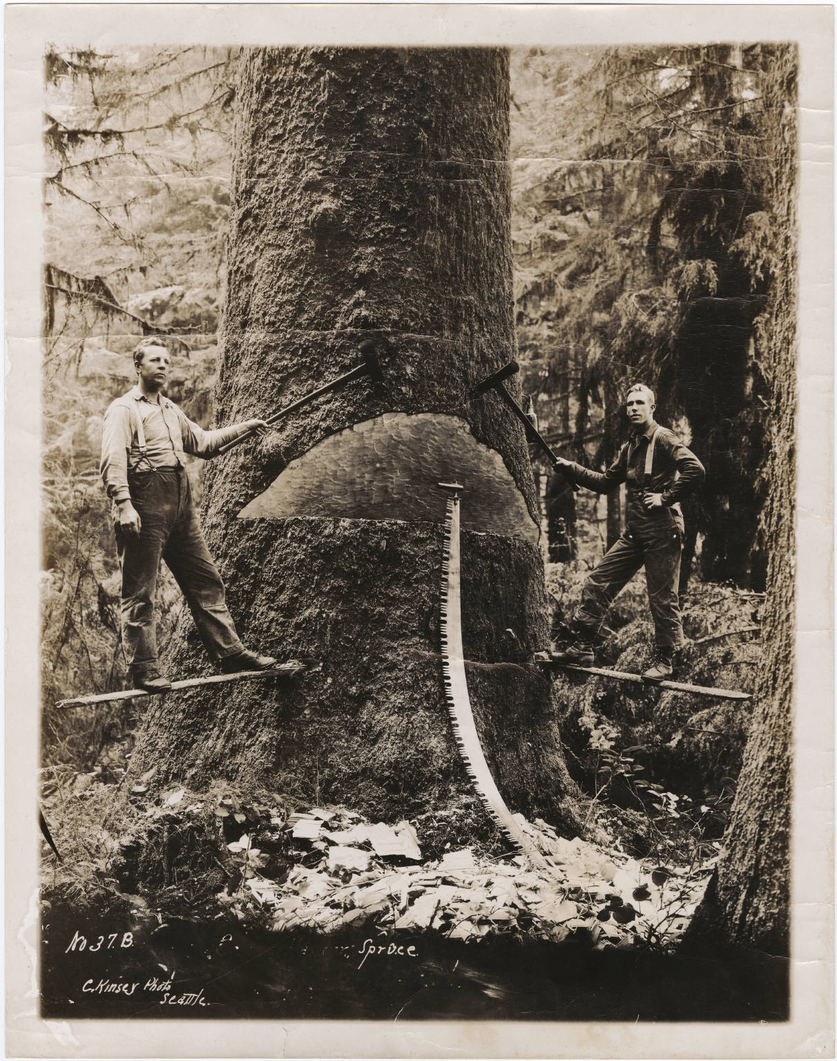 "Spruce," photograph of two loggers in Washington State, by photographer Darius Kinsey. Courtesy of the Beinecke Rare Book & Manuscript Library, Yale University.